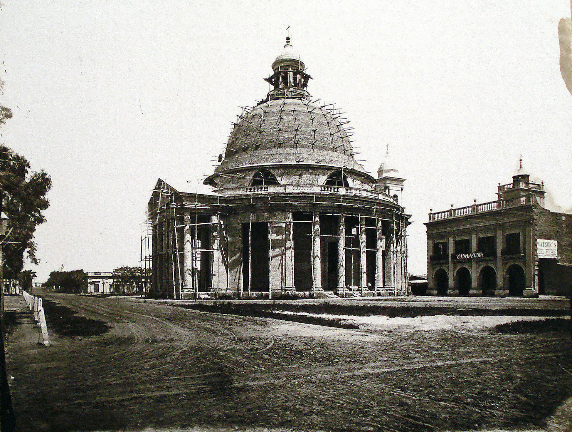 Church of The Immaculate Conception of Belgrano district (Buenos Aires), during its construction.